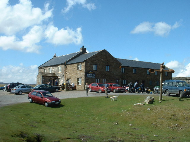 Tan Hill Inn, Yorkshire. This must be one of Britain's highest pubs, at around 500m [1750ft in old money]. It's very popular, at least when the weather's good!